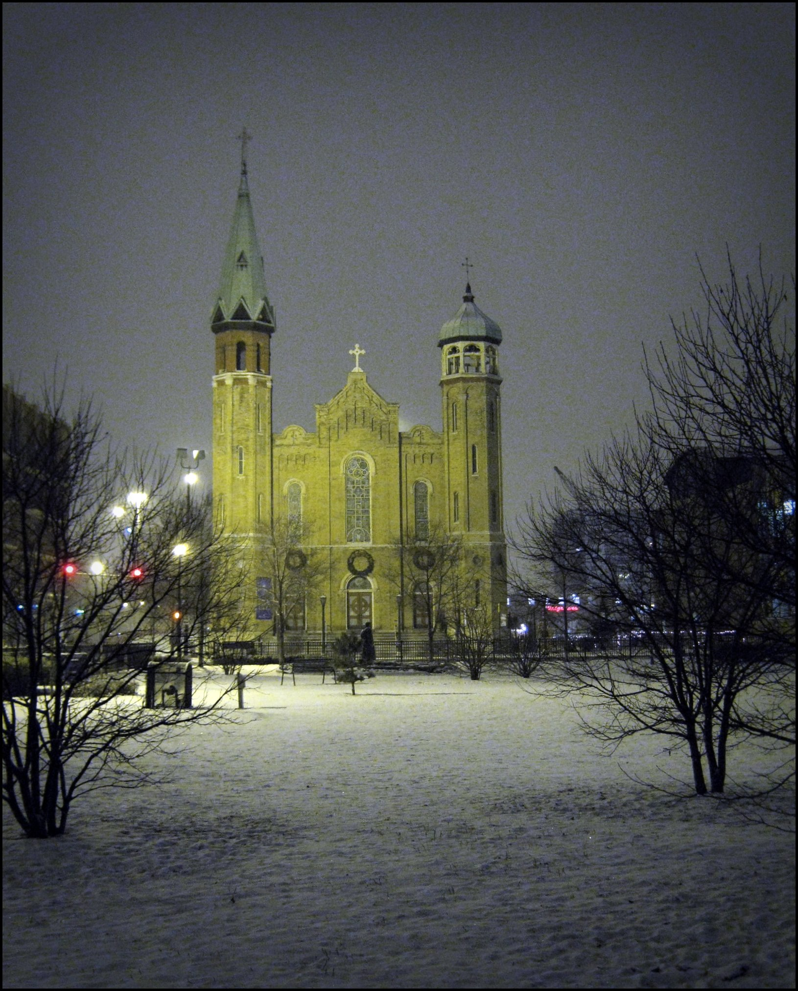 Built between 1853 & 1856, this historic Church has witnessed vast changes in Chicago. It is one of the few buildings in the area that survived the Great Chicago Fire. Once boasting one of the largest congregations in the city, the church was nearly torn down in the 1950's as expressway construction tore a path directly behind it. The Church found itself nearly alone in the neighborhood in the late 70's and early 80's. It is noted that only 4 people were registered members of the church at one point in 1983. Today, a condo within walking distance to the church can run anywhere from $300,000 to well over a million dollars and I often encounter large crowds leaving church on Sundays!